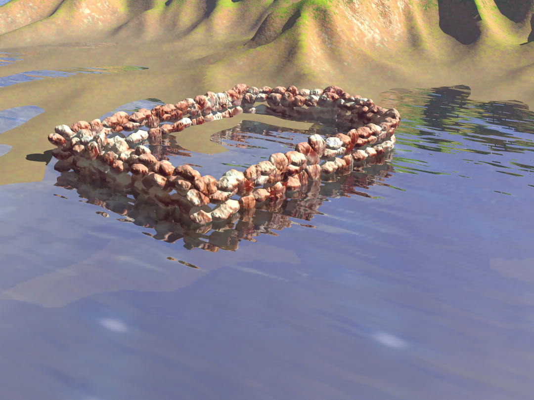 Polynesian fish trap